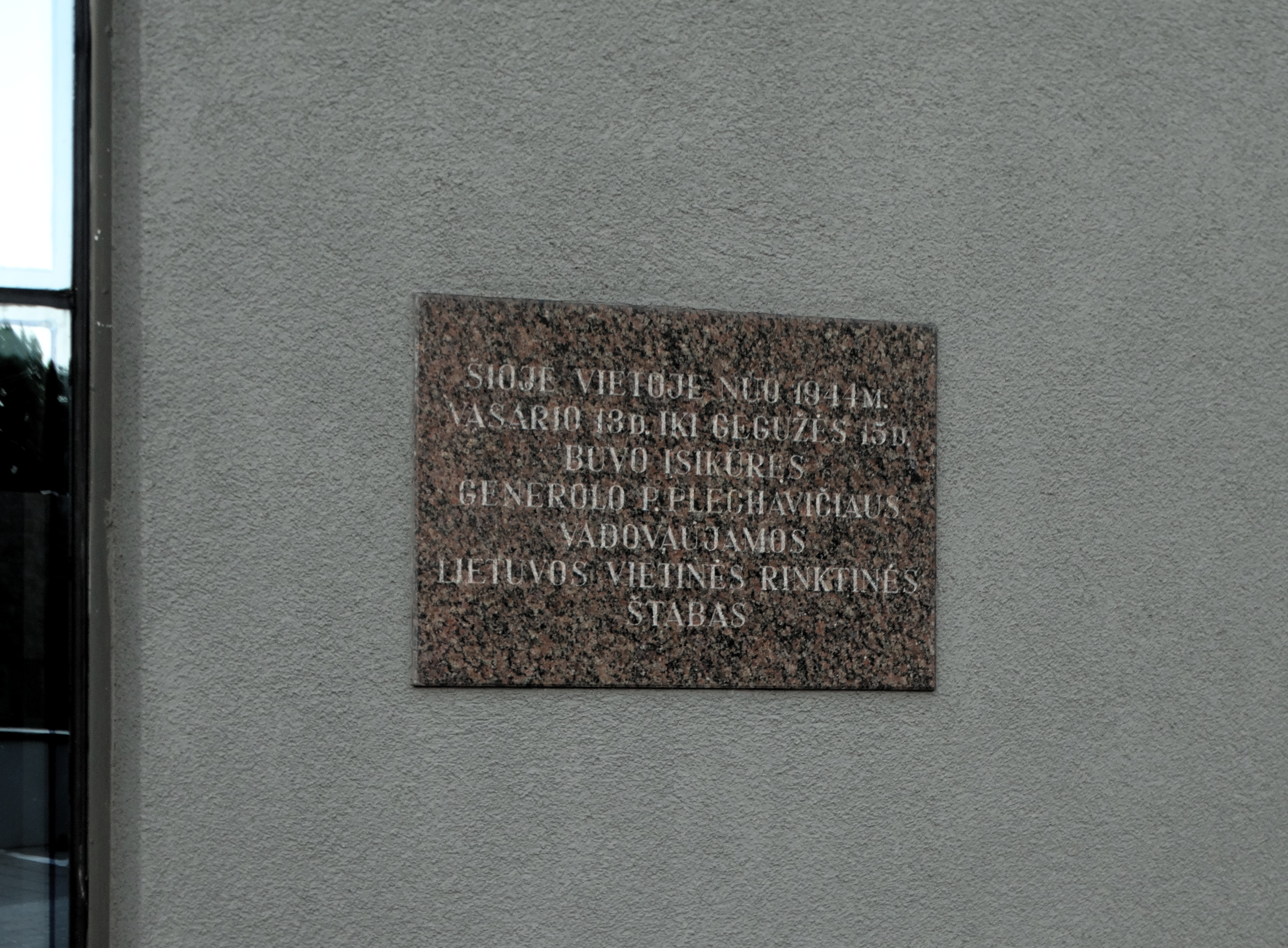 Guard headquarters of Povilas Plechavičius, memorial plaque, Kaunas, Lithuania